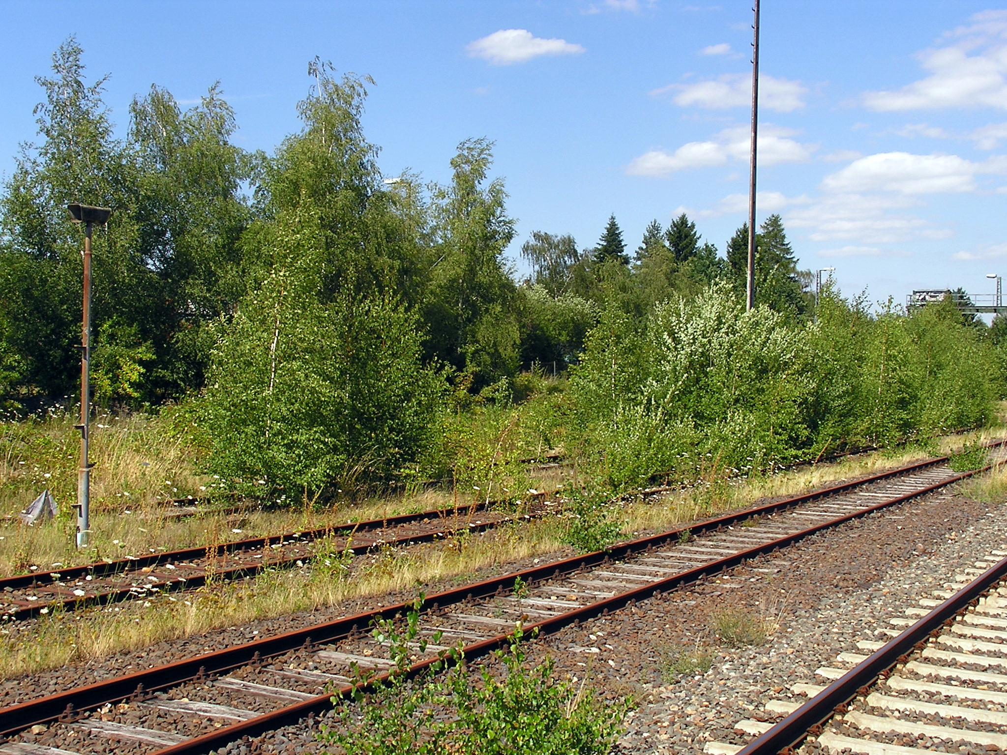 Former loading tracks in the station Oberursel